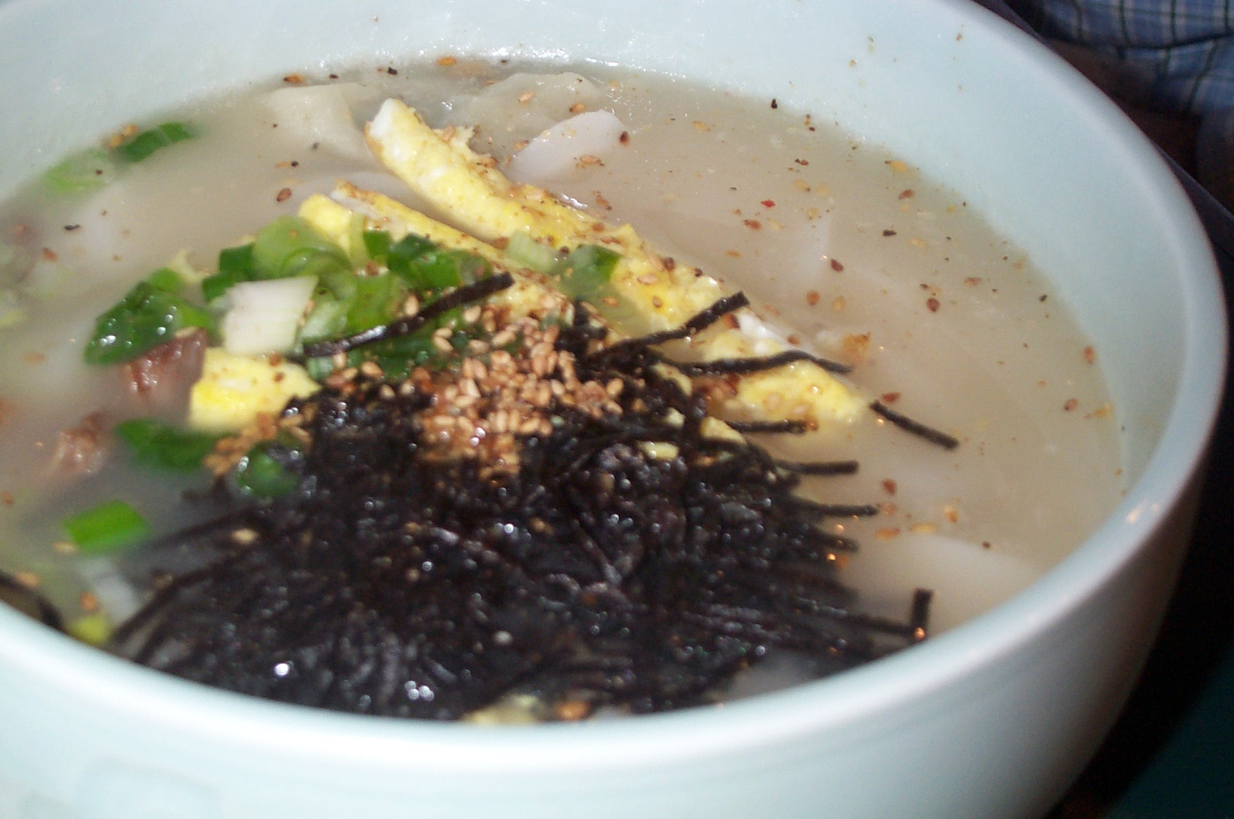 Tteok mandu guk that is a variant of Tteok guk is added Mandu(Korean beef dumpling).